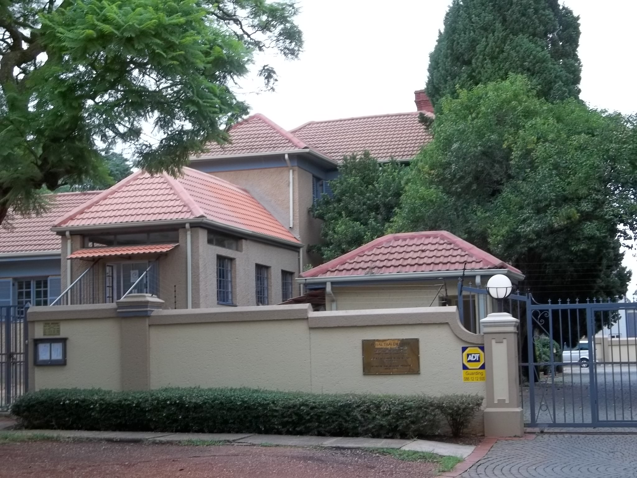 TH in ZA